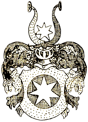 Coat of arms of the Pforr family from Breisach, Germany (Hans Werner von Pforr, 1449)